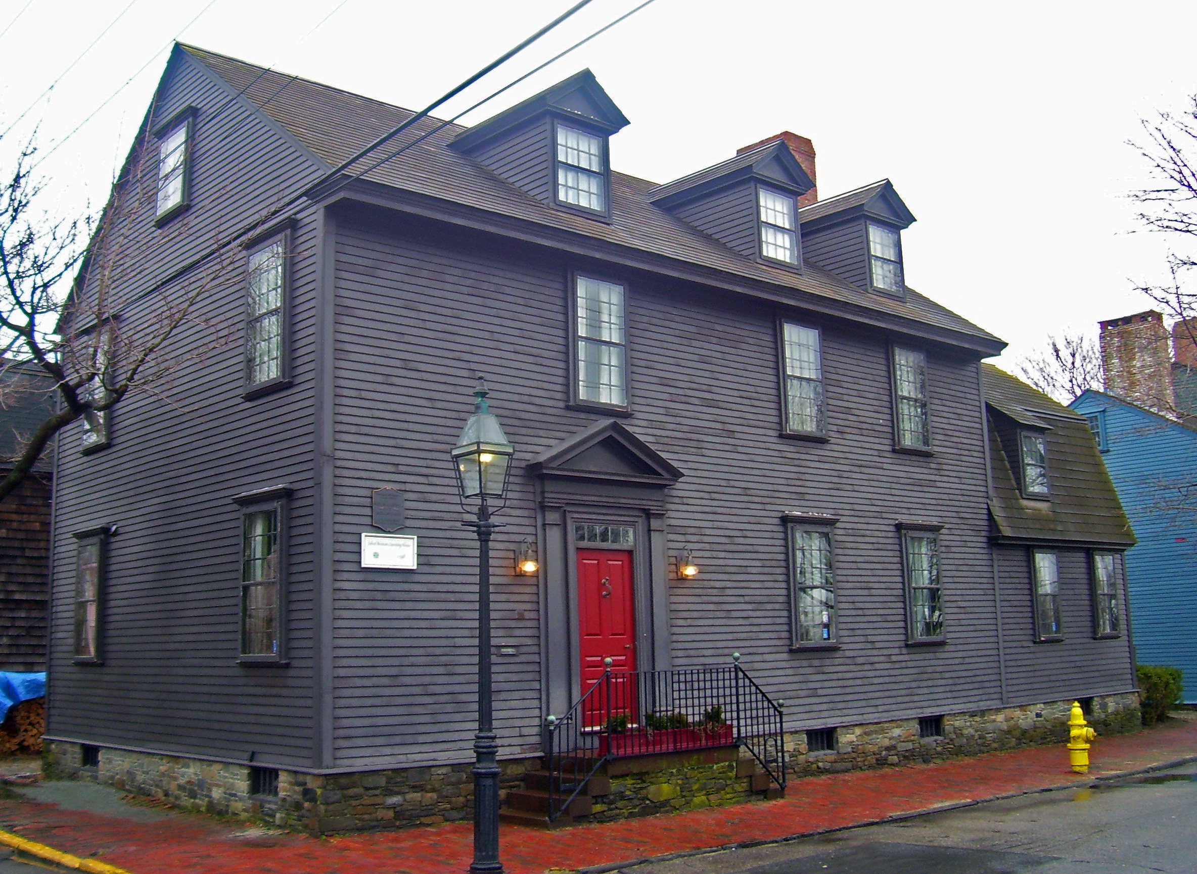 Wooden house in Easton's Point neighborhood of Newport, RI, USA, part of the Newport Historic District